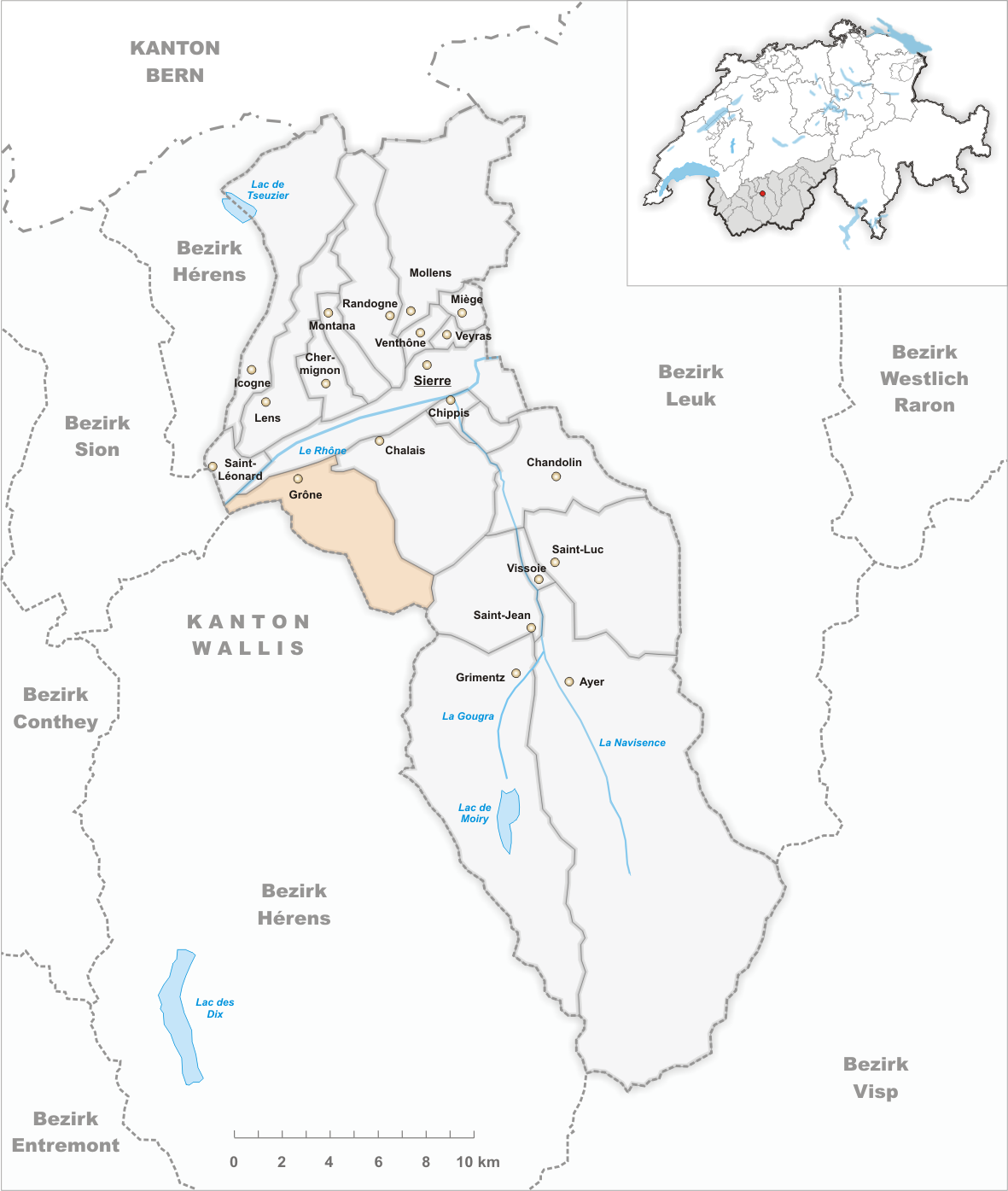 Municipality Grône